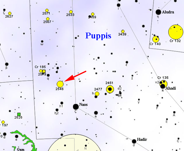 Map of NGG 2546